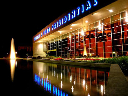 The Gerald R. Ford Presidential Museum in Grand Rapids, Michigan